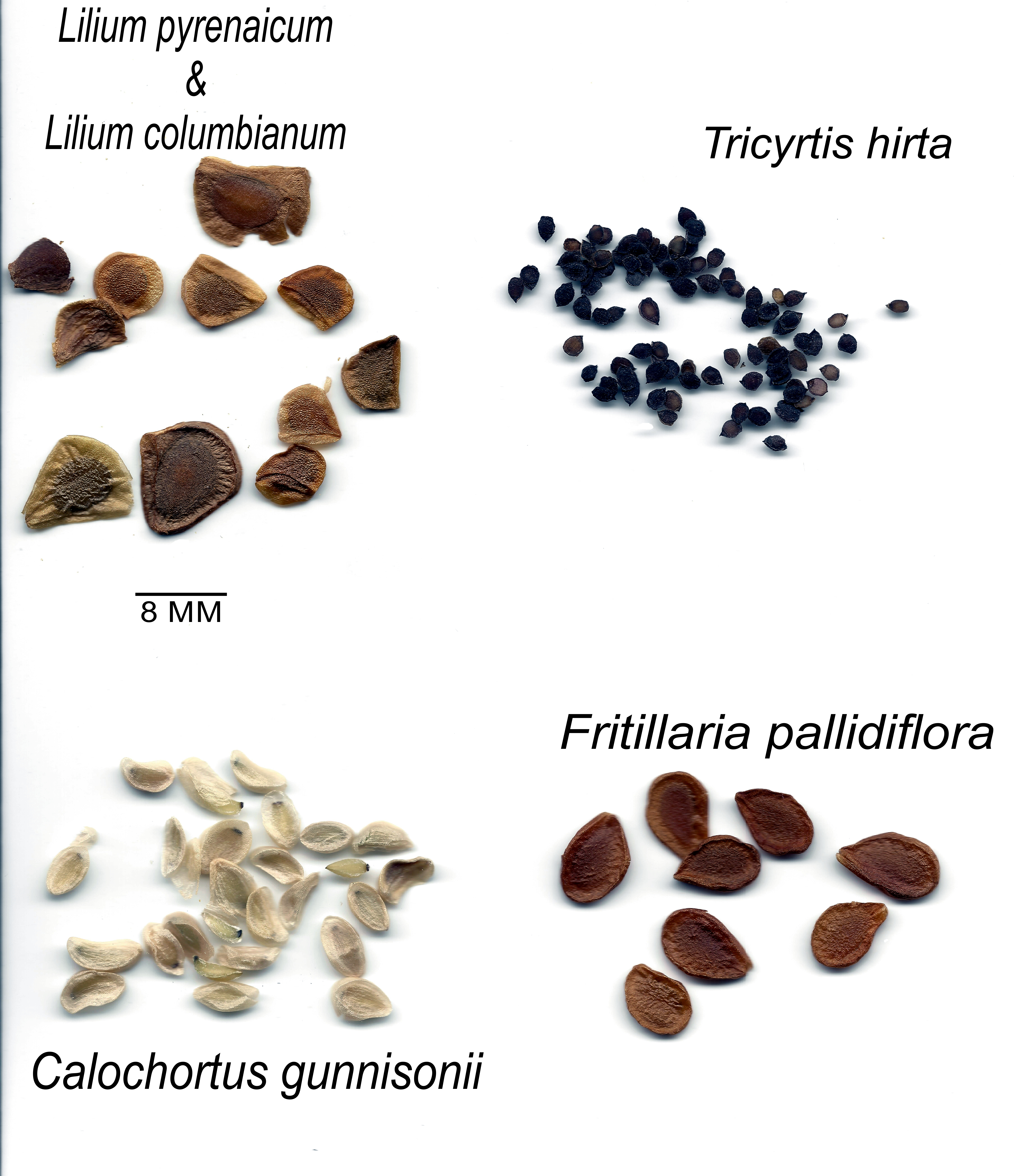 A selection of seeds for species belong to Liliaceae